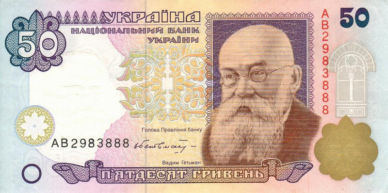 50 Hryvnia banknote (Ukraine), 1996, front